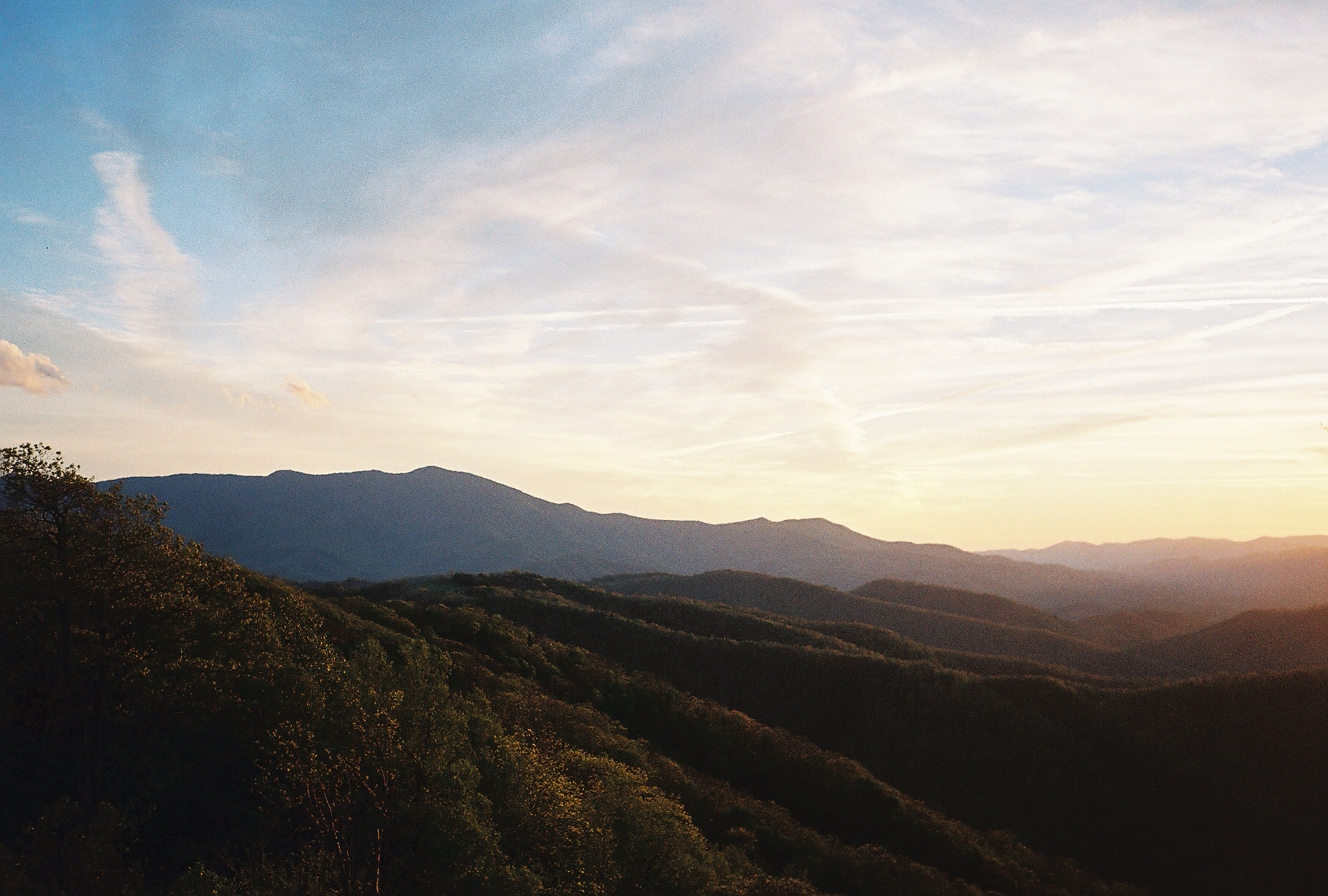 Celo Knob, in the Black Mountains of the U.S. state of North Carolina, at sunset.